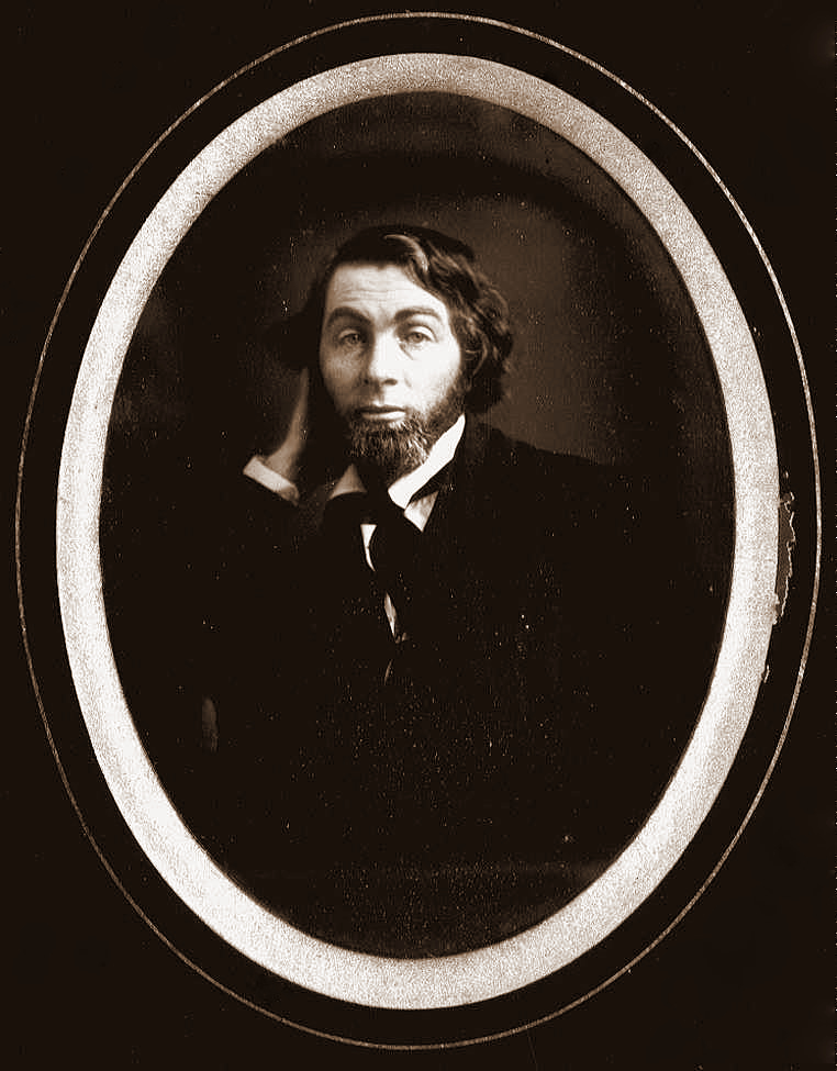 Walt Whitman at age 28, Feb-May 1848, New Orleans "This daguerreotype was made in New Orleans, during Whitman's residence there between February and May, 1848, while he worked on the New Orleans Crescent. " [1]